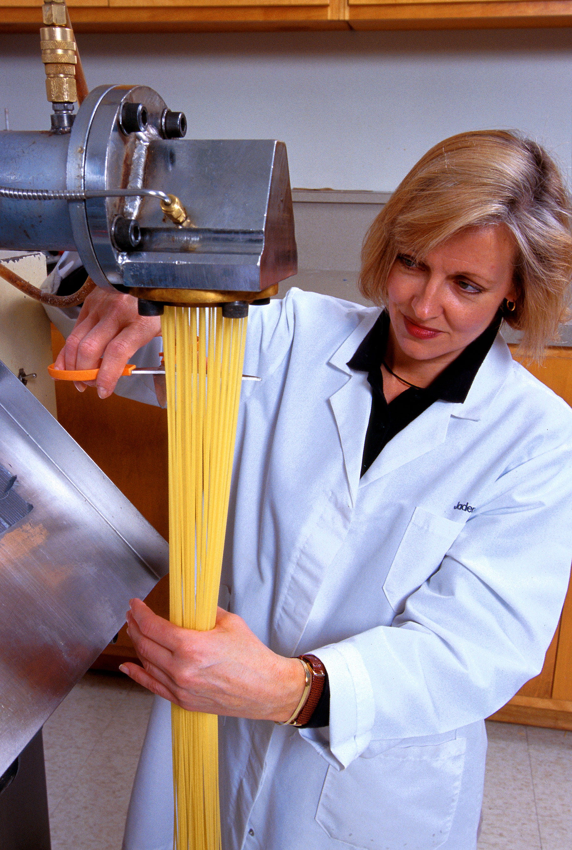 The quality of pasta made from semolina–the purified middlings of milled durum wheat–is an important consideration in breeding new varieties. To evaluate the semolina, physical science technician Jadene Wear extrudes spaghetti, which will be dried and test-cooked.